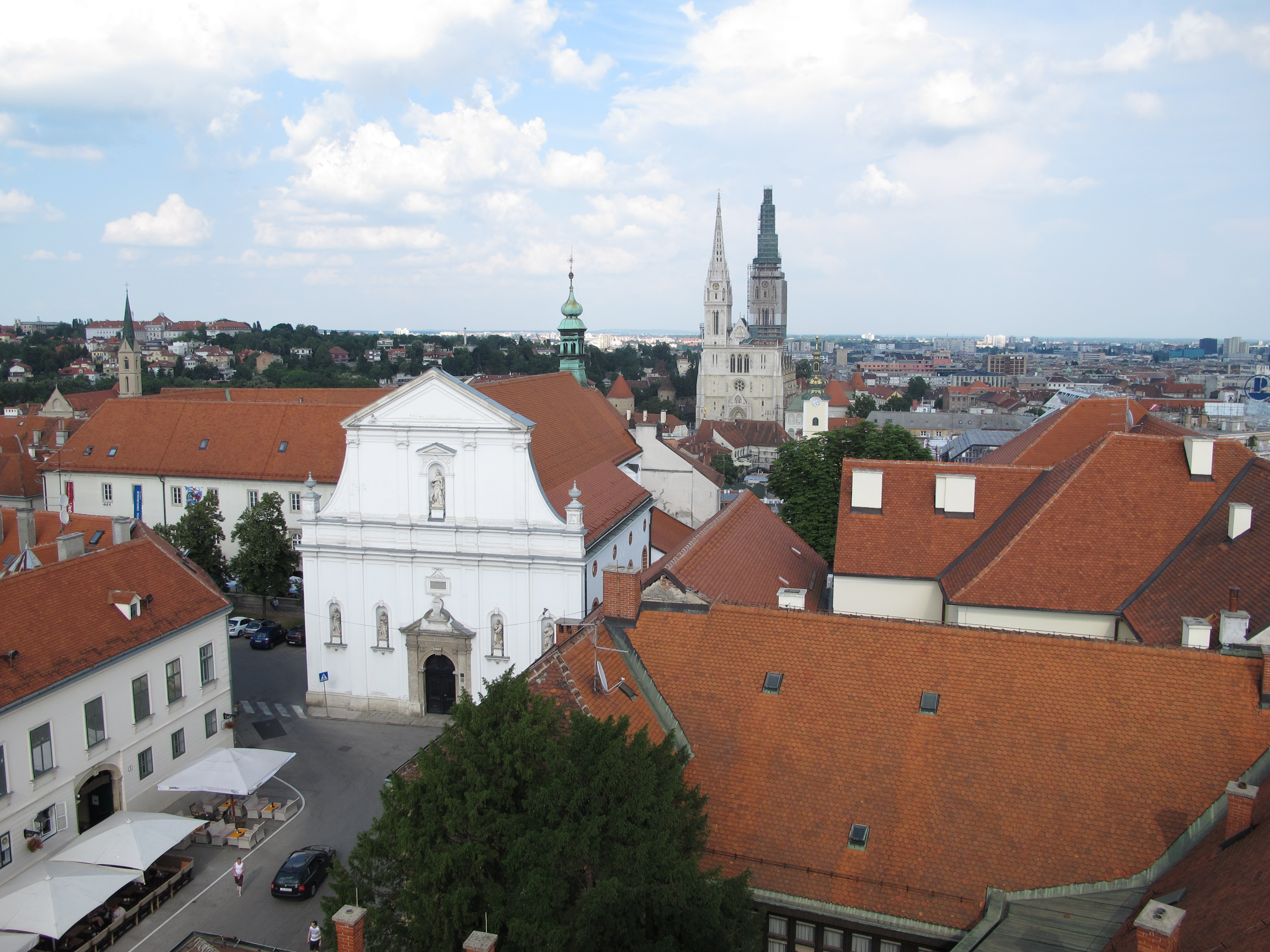 Zagreb View from Lotrščak